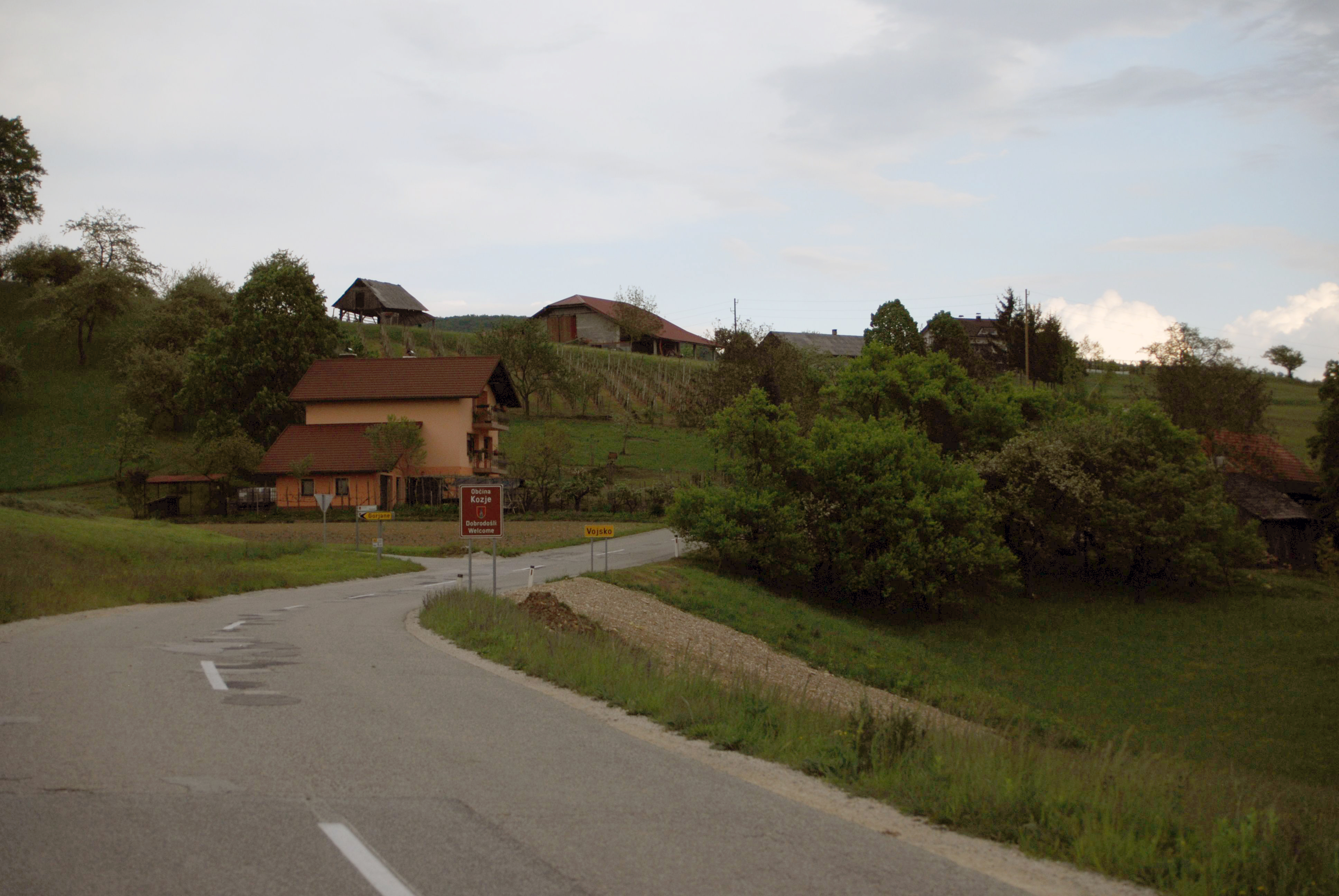 Vojsko, a village in the Municipality of Kozje, eastern Slovenia.